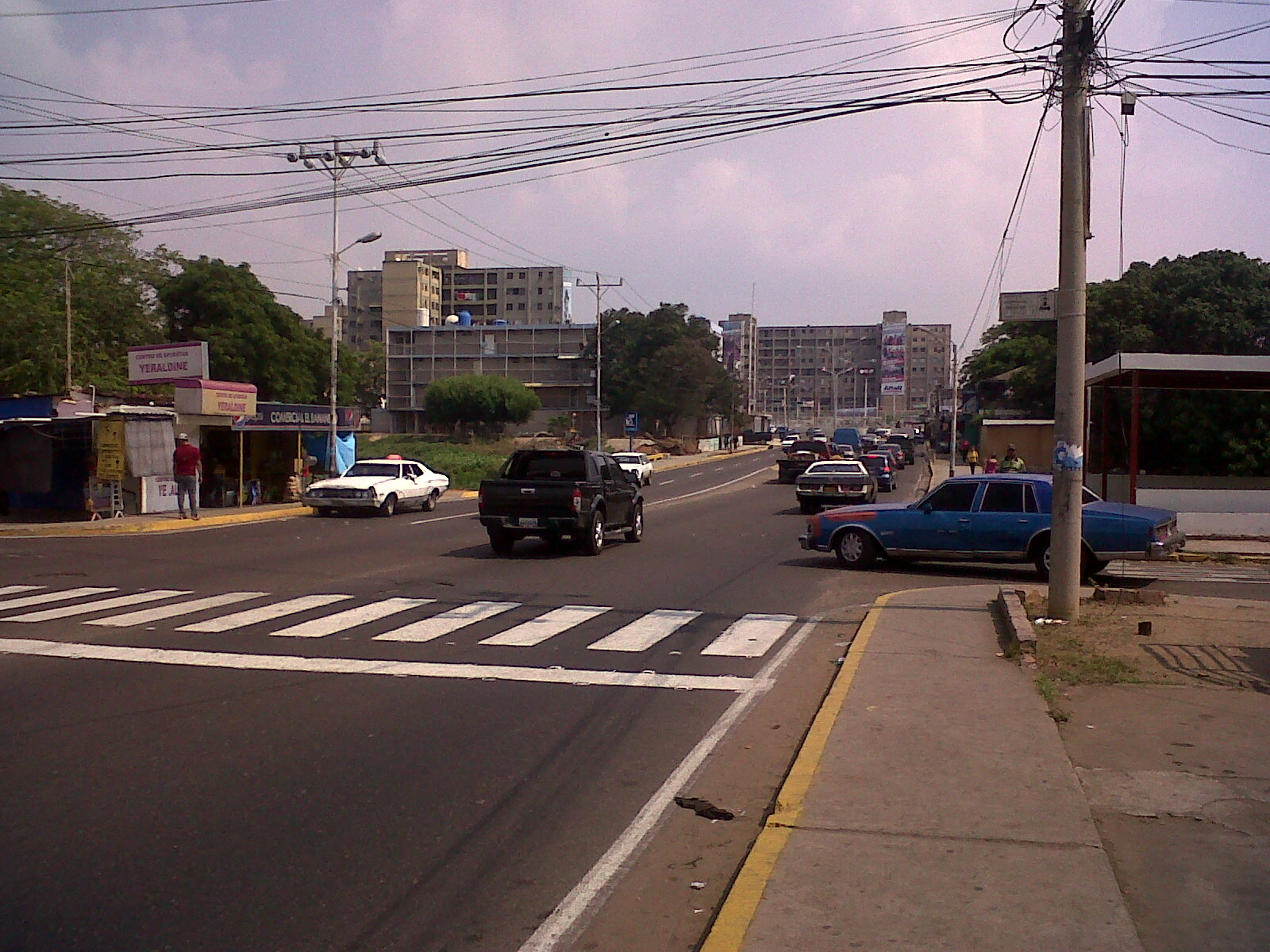 avenue